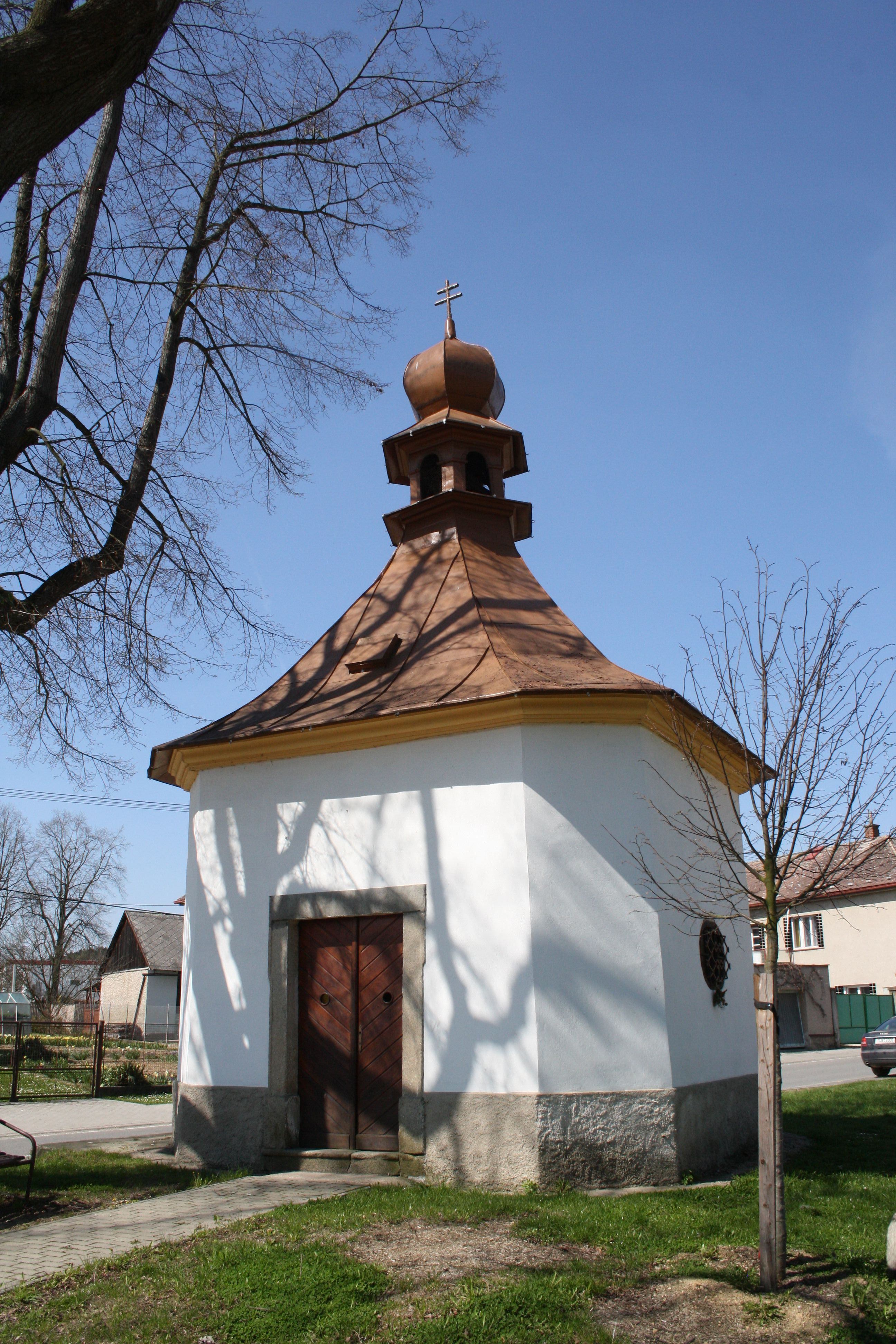 Overview of Chapel in Perknov.